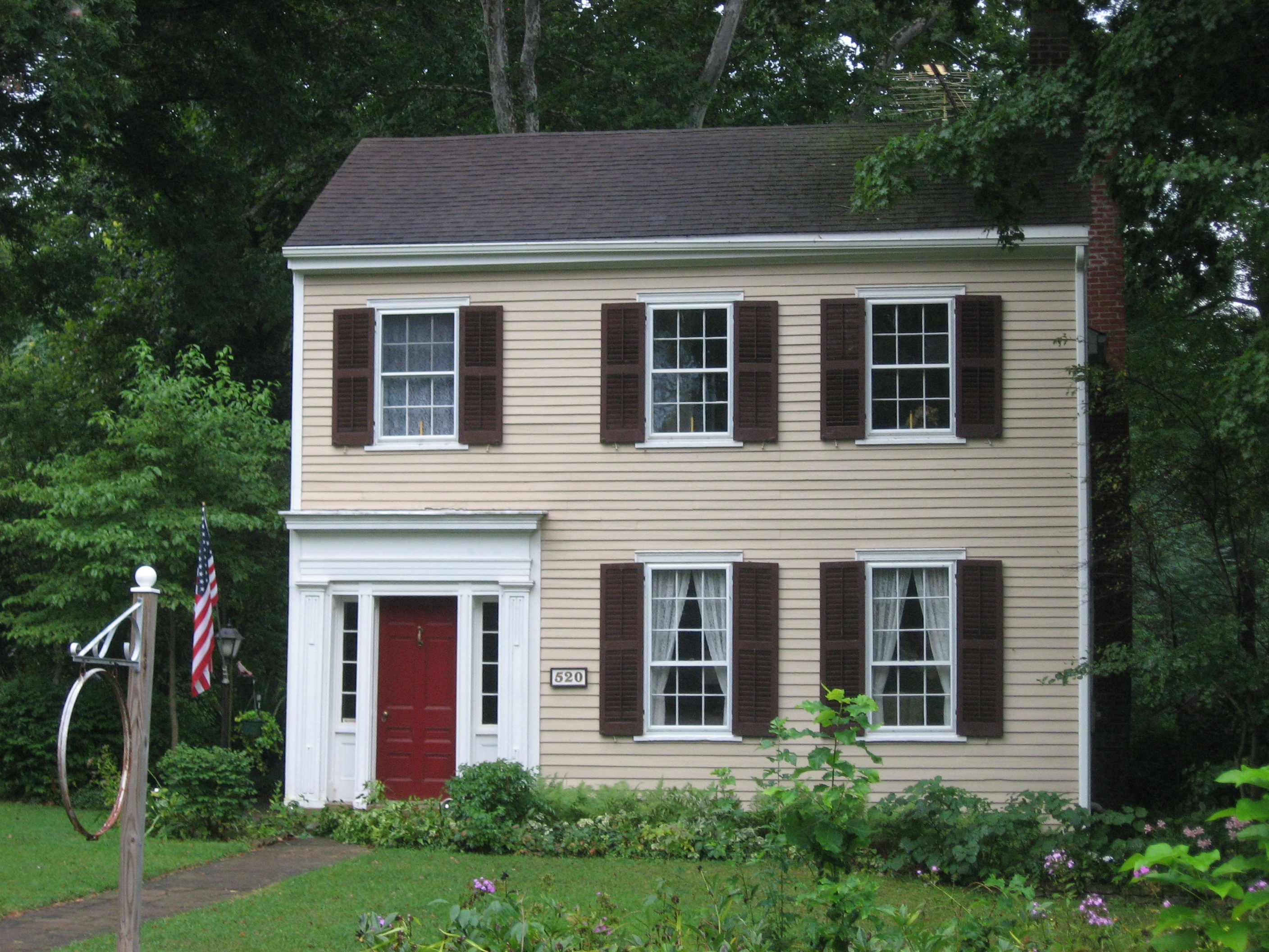 Front of the Lackey-Overbeck House, located at 520 E. Church Street in Cambridge City, Indiana, United States. Built in 1835, it is listed on the National Register of Historic Places, and it is part of a Register-listed historic district, the Cambridge City Historic District.